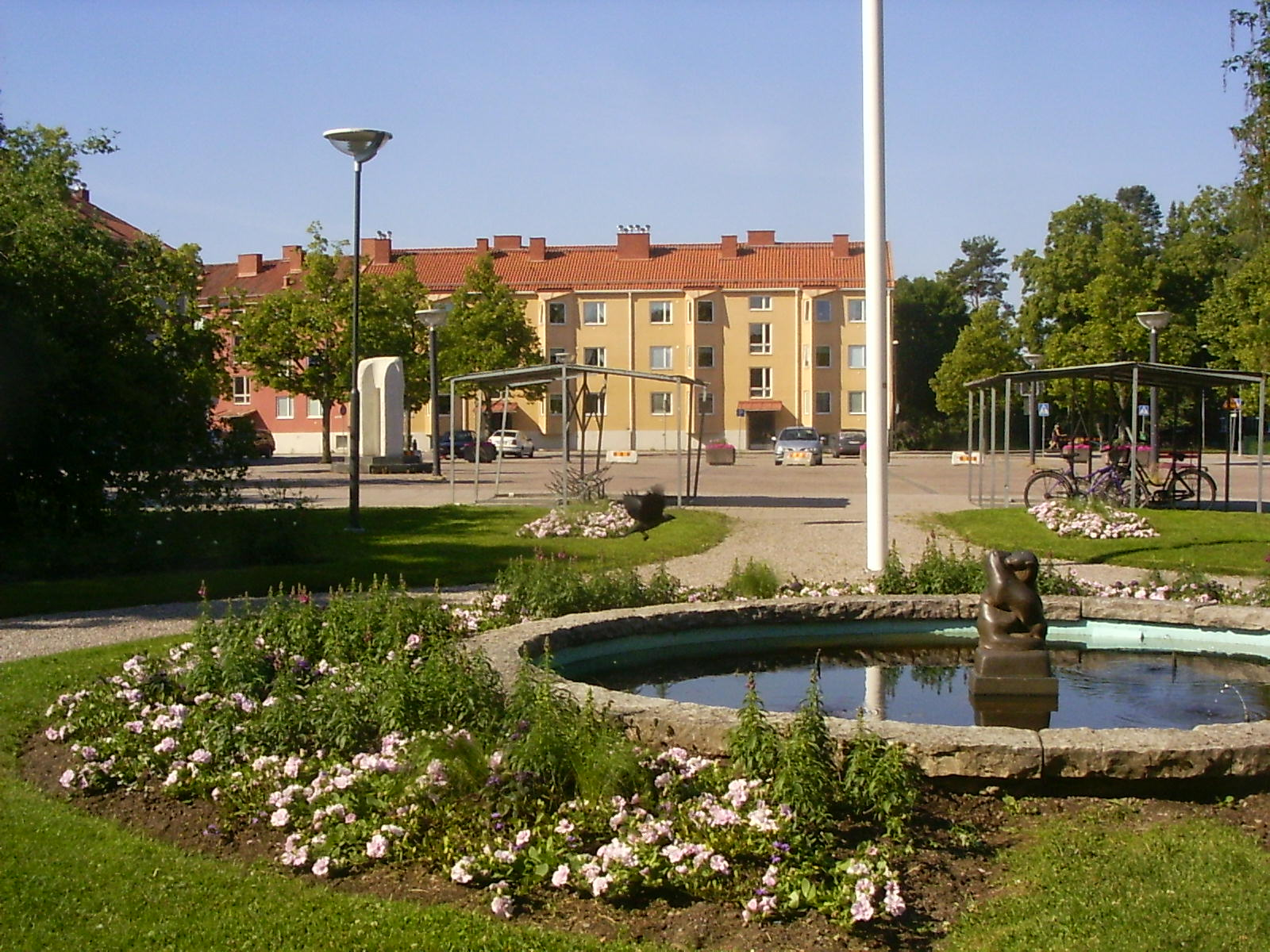 Sunday morning in central Kungsör